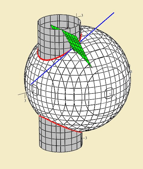 Example of a space curve originating as the intersection of two surfaces